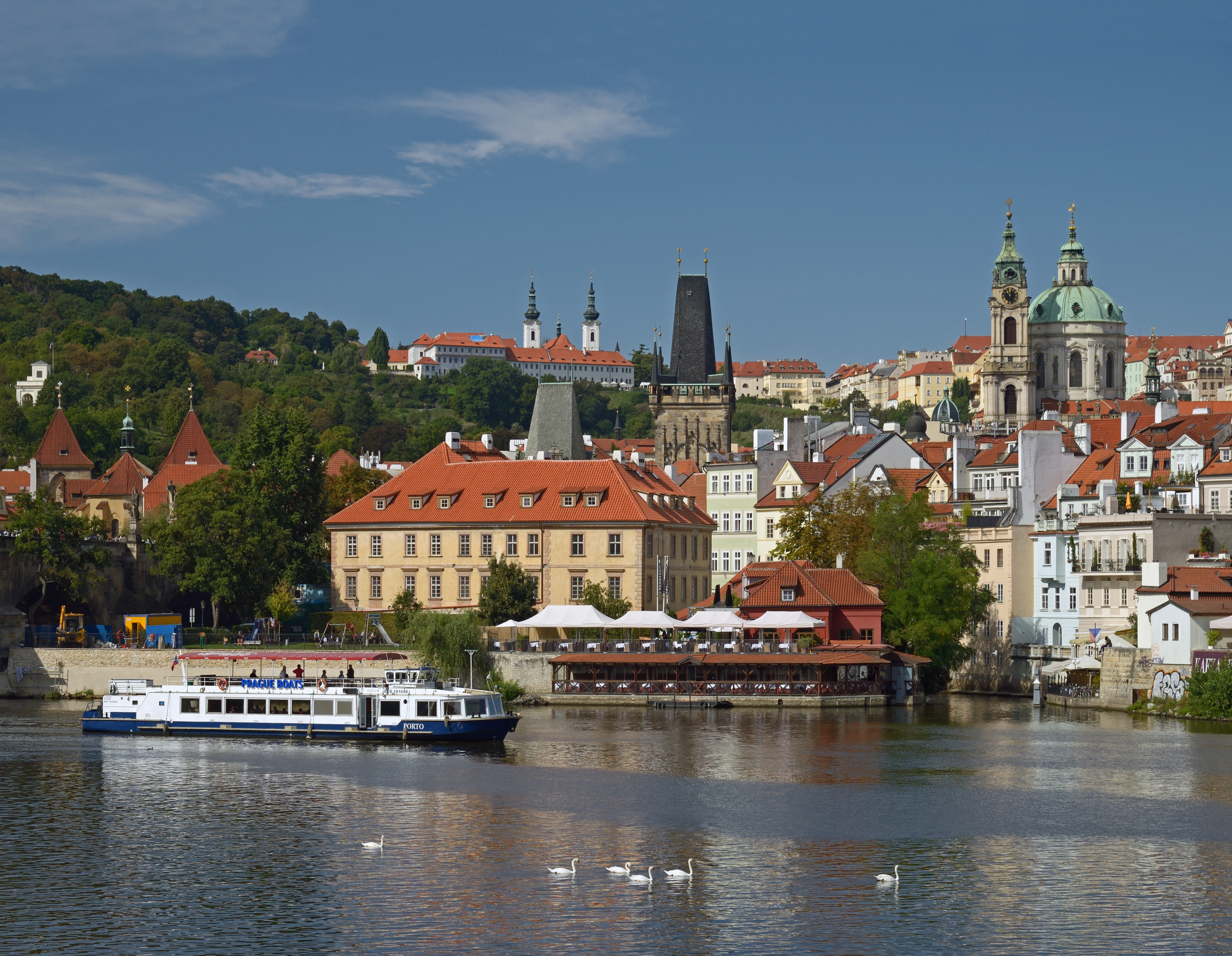 Vltava River, Church of Saint Nicholas at Malá Strana, Malá Strana Bridge Tower, Basilica of the Assumption in the Strahov Monastery. Prague, Czech Republic